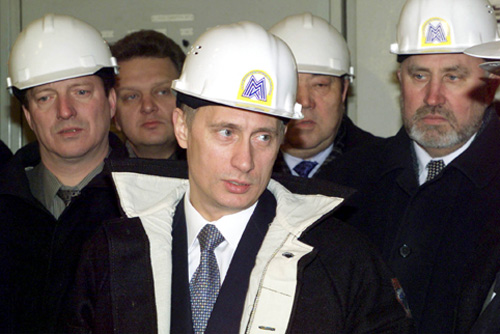 MAGNITOGORSK. President Vladimir Putin at the Magnitogorsk Iron and Steel Works (MMK).